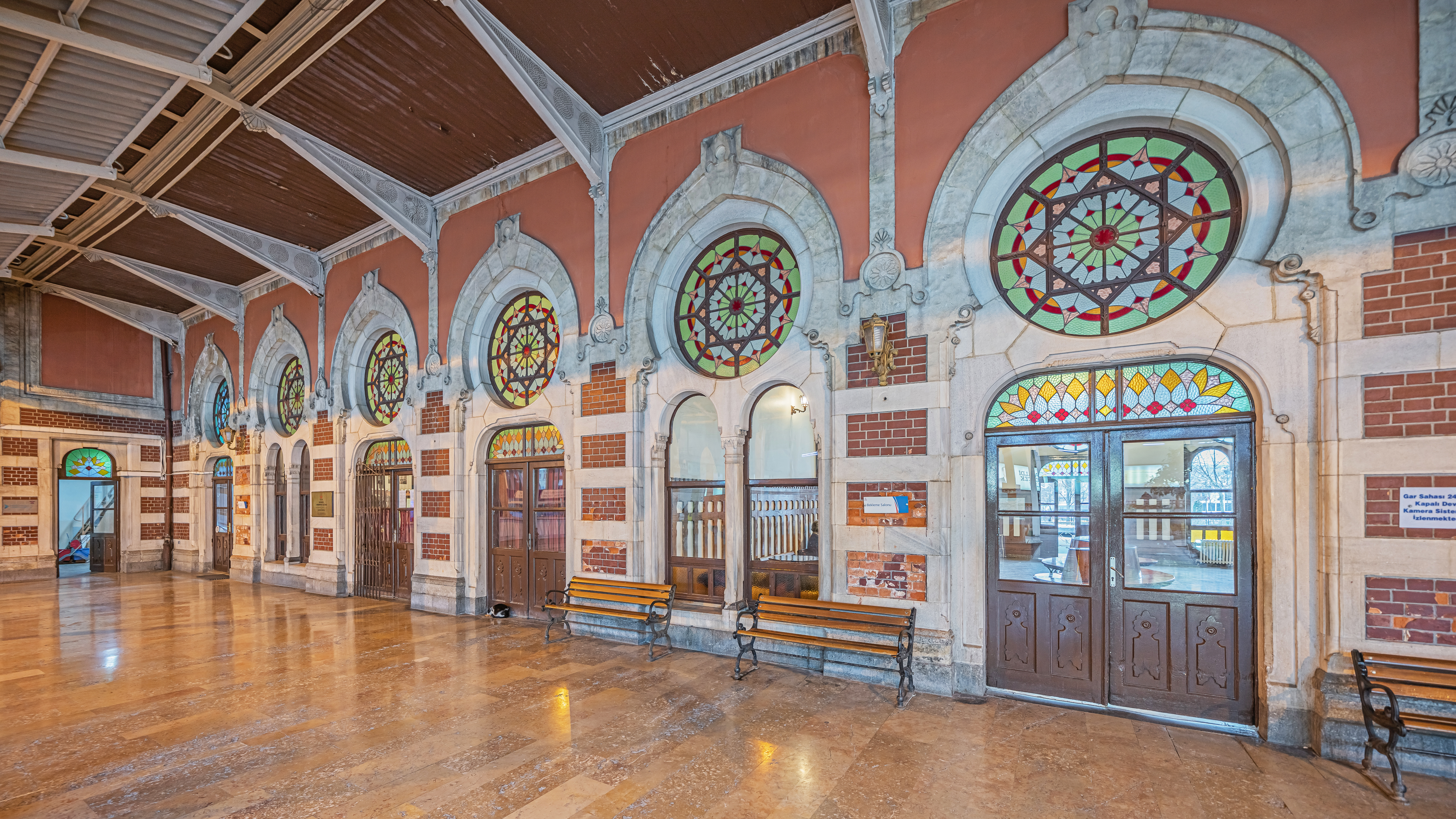 Interior of the Sirkeci railway terminal in Istanbul, Turkey